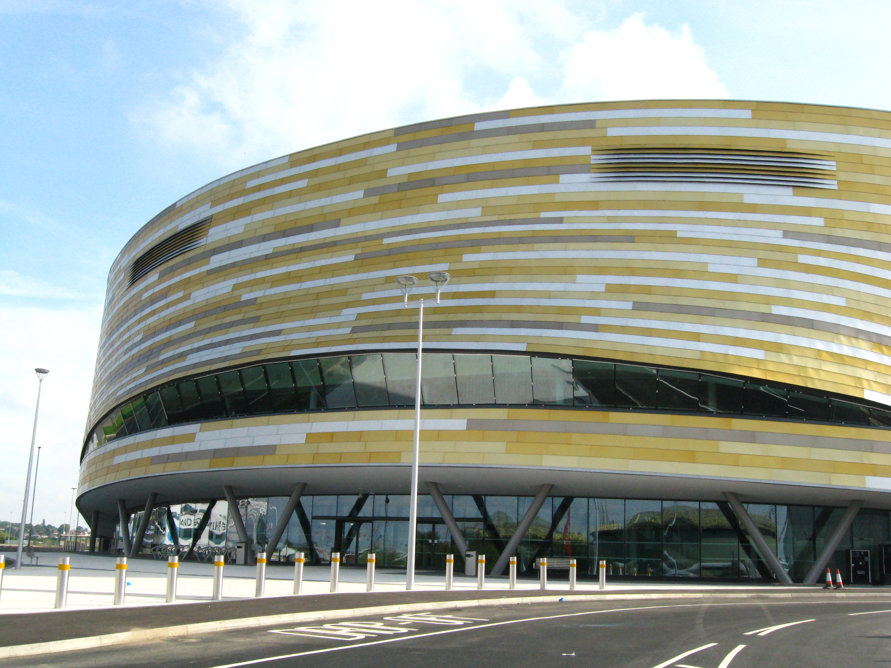 Frontage of Derby Velodrome (also known as Derby Arena), just after completion in September 2014.